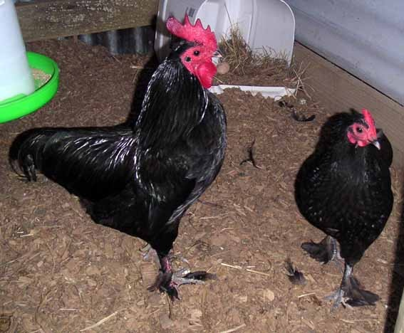 A pair of Black Australian Langshan Chickens.